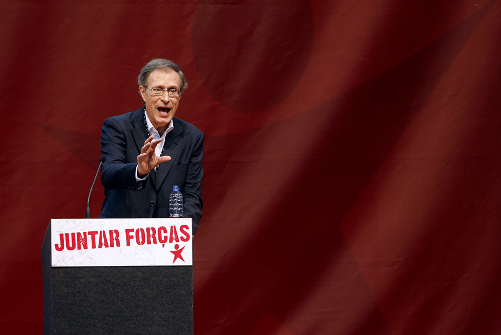 Francisco Louçã in VI National Convention of Left Bloc.